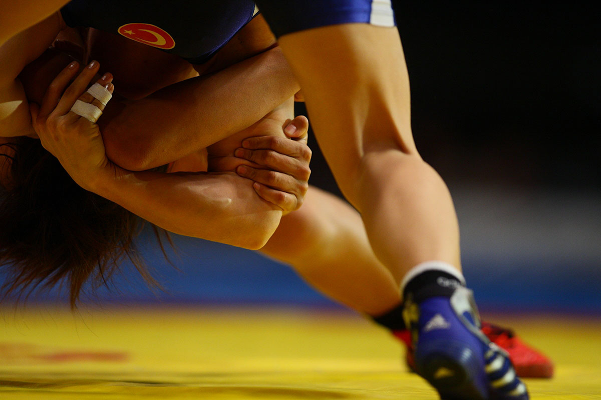 OCTOBER 13, 2008 - Wrestling : 2008 Senior Female Wrestling World Championships at 1st Yoyogi Gymnasium on October 13, 2008 in Tokyo, Japan. (Photo by Tsutomu Takasu)